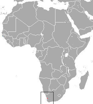 Van Zyl's Golden Mole (Cryptochloris zyli) range